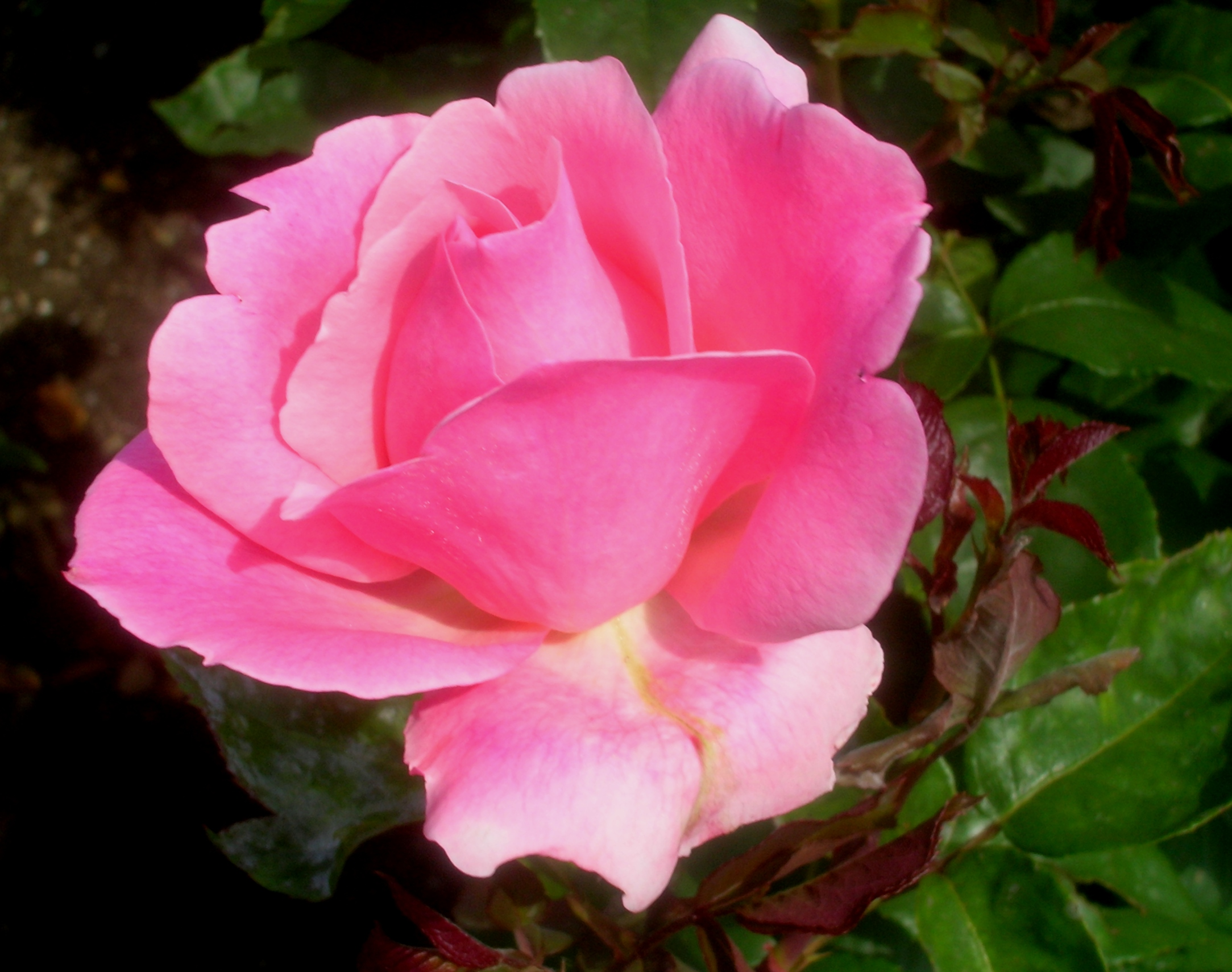 Rosa 'Queen Elizabeth' in the Volksgarten in Vienna.